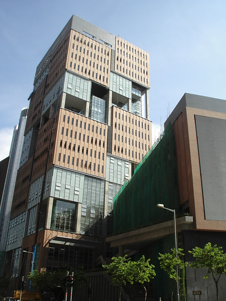 HK Community College